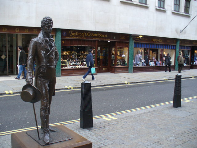 Beau Brummell Dandy statue on Jermyn Street, a street famous for high class tailoring.